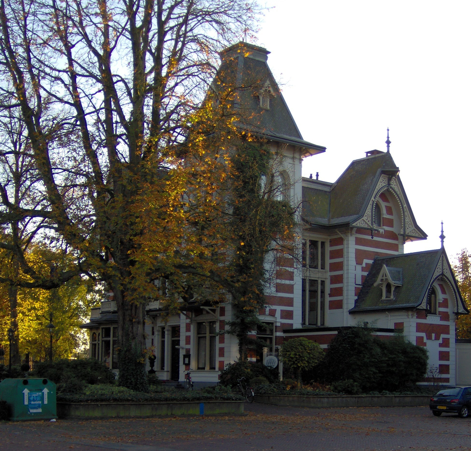 The Dorset, former town hall of Borne